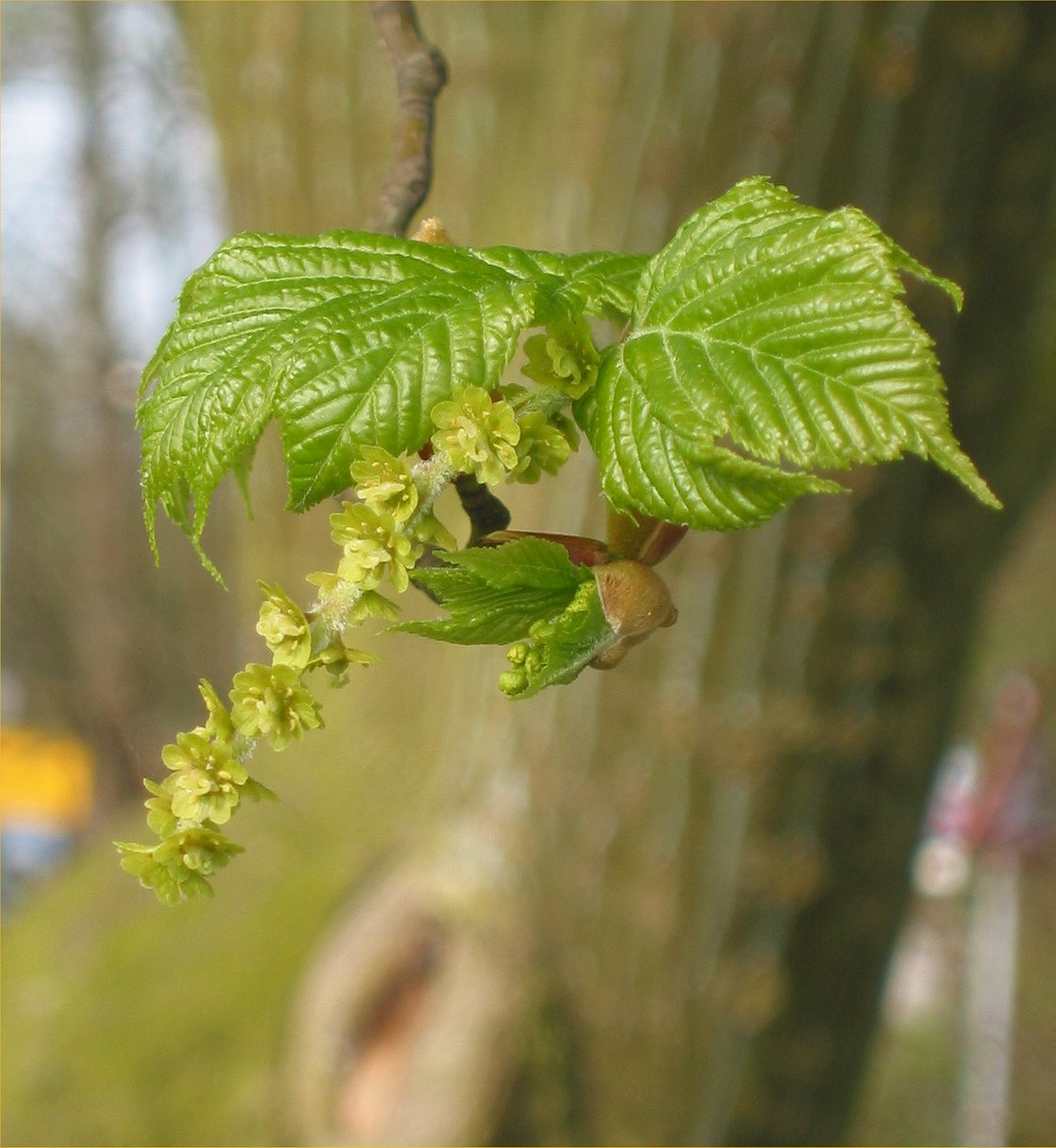 Acer capillipes inflorescens